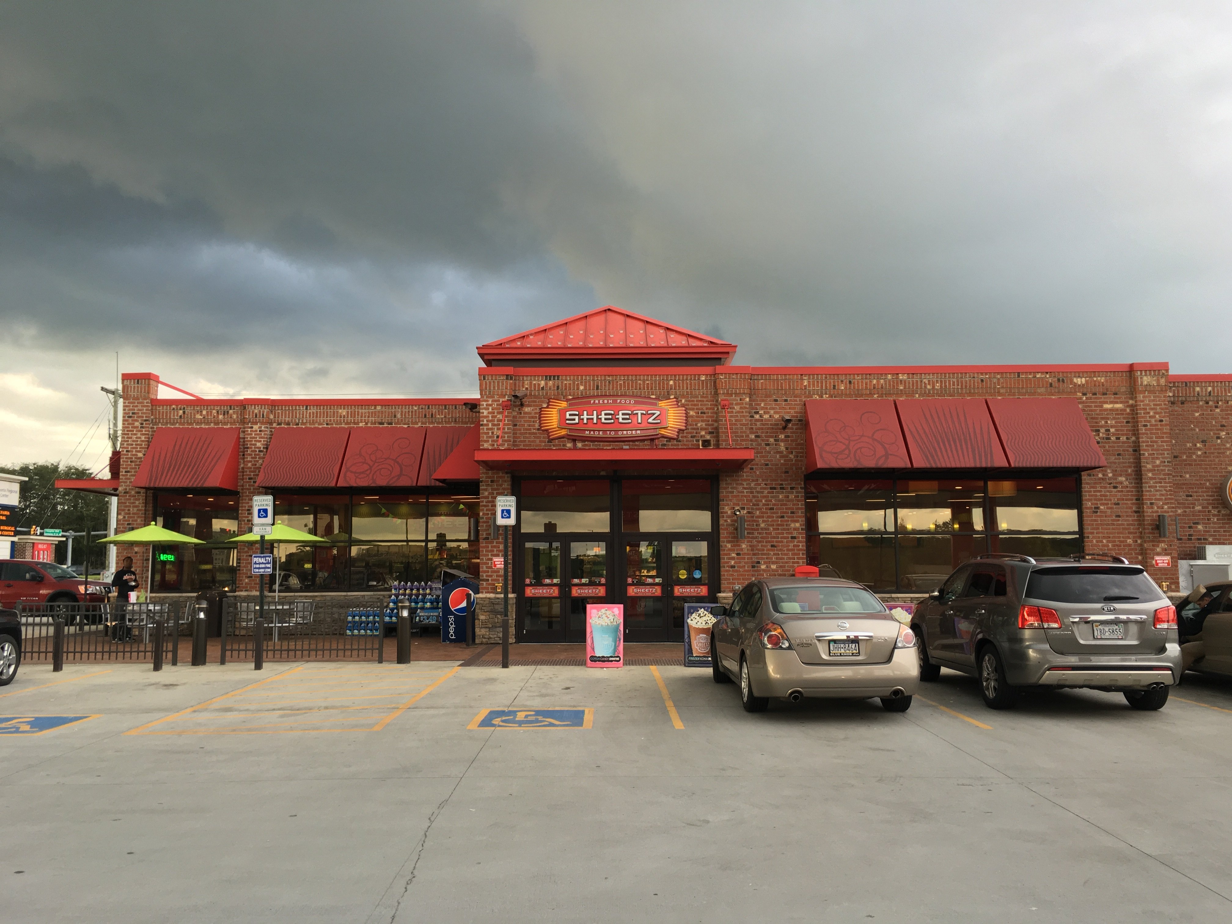 Sheetz #543 in Fredericksburg, Virginia.